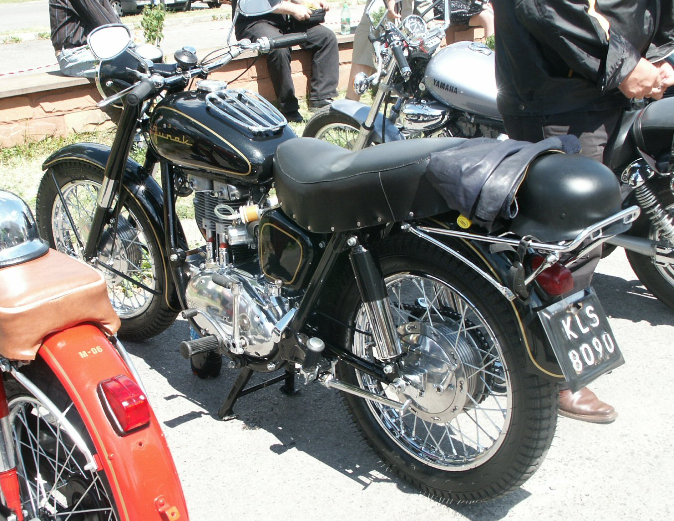 Motorcycle Junak (Polish)